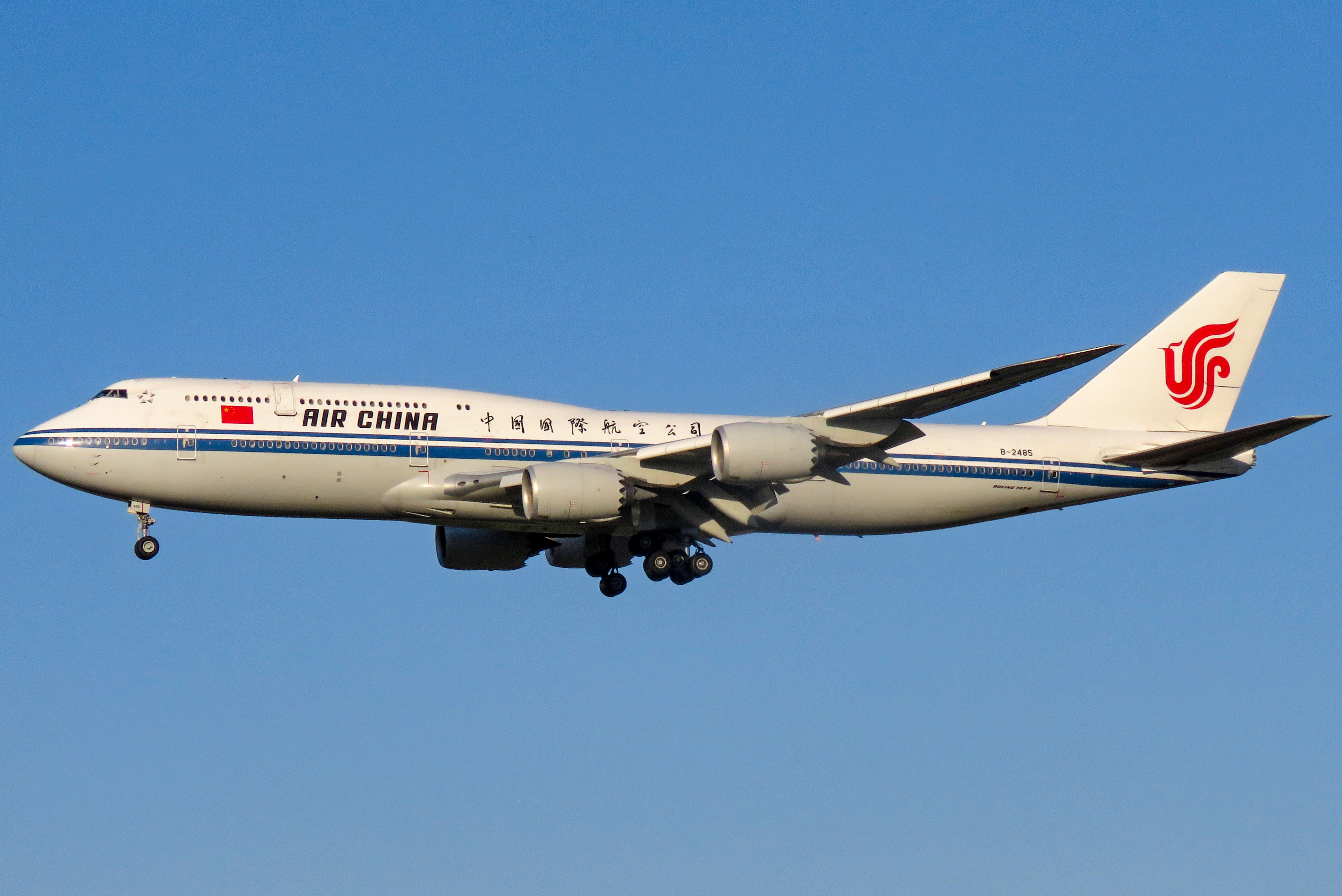 Air China 986 from San Francisco. Profile?!